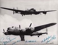 Photo of Lancaster KB-976 flying over FM-136 memorial during final RCAF flight of Lancaster type, July 4, 1964, Calgary, Alberta. One of 5 copies signed by crew; Captain Lynn Garrison, Co-Pilot Ralph Langemann, and Joe McGoldrick, Jimmy Sutherland, Brian B. McKay